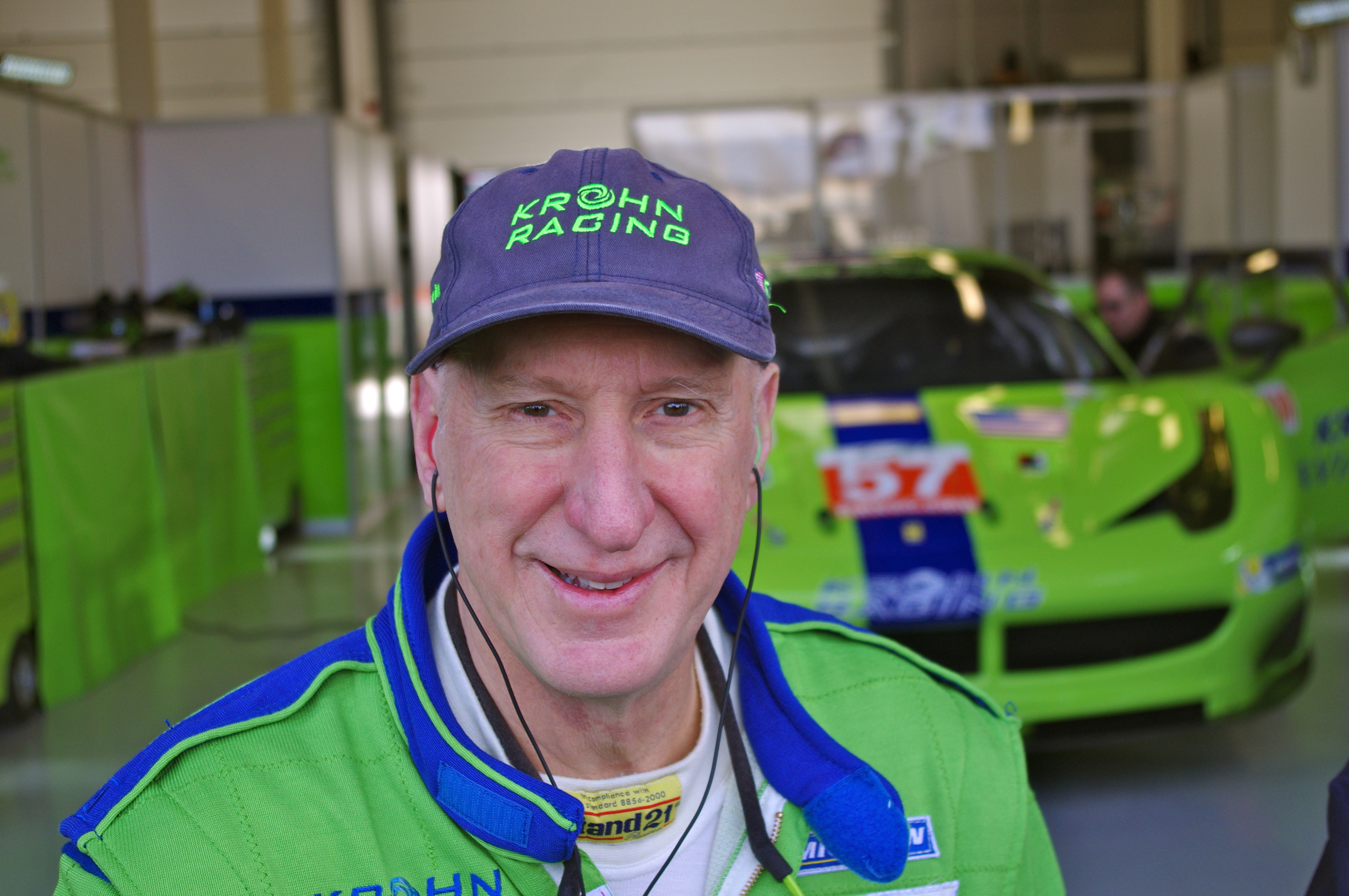 Silverstone 6 Hours 2013 FIA World Endurance Championship (WEC)